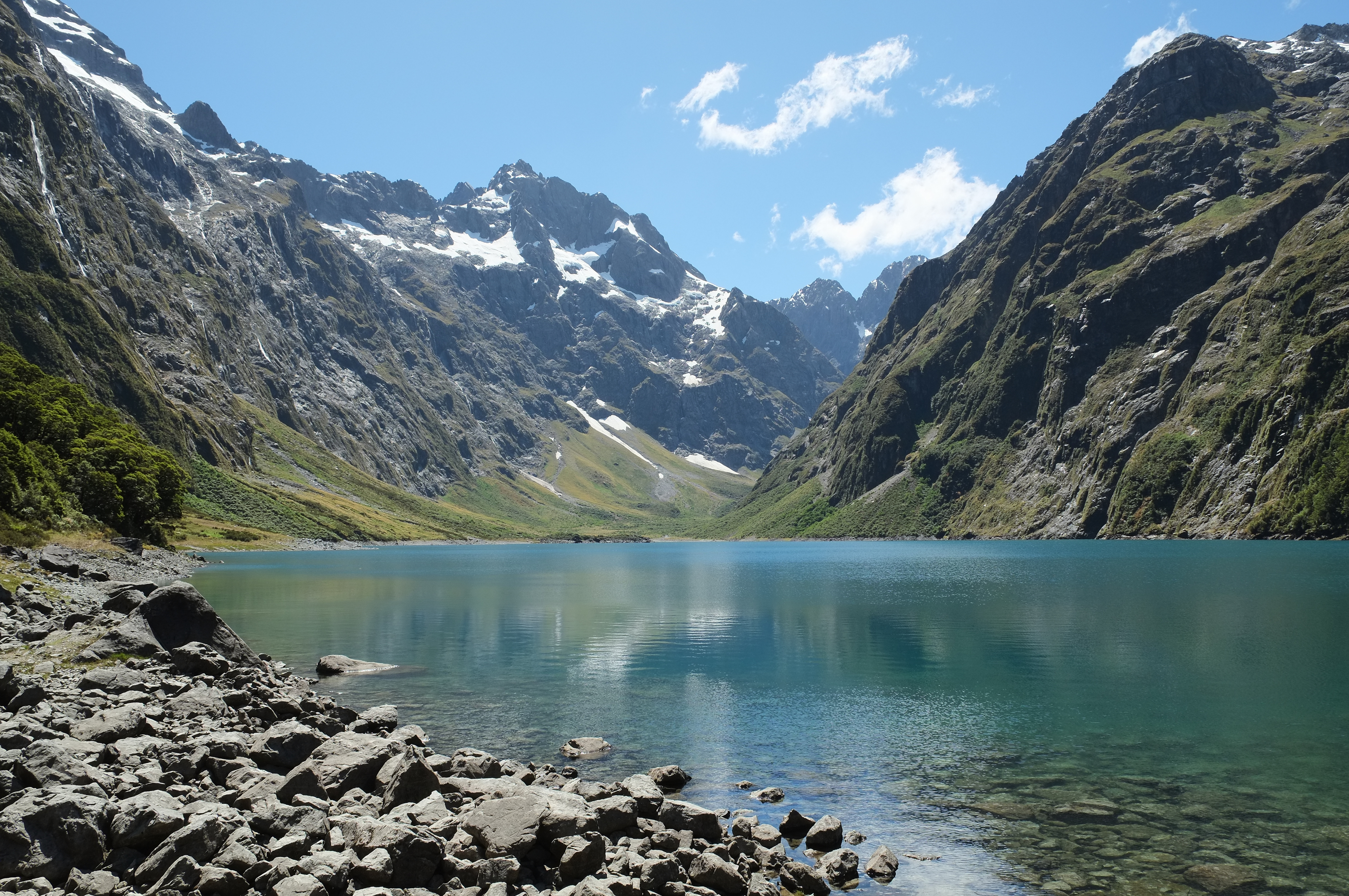 View along shore of Lake Marian